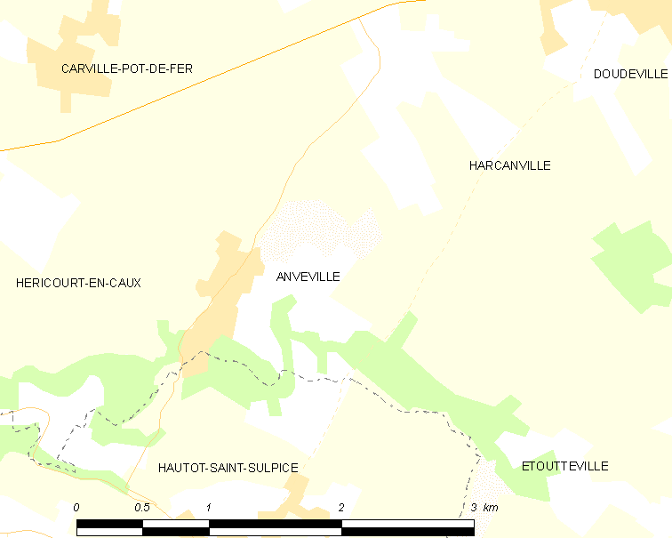 Map of French municipality Anvéville